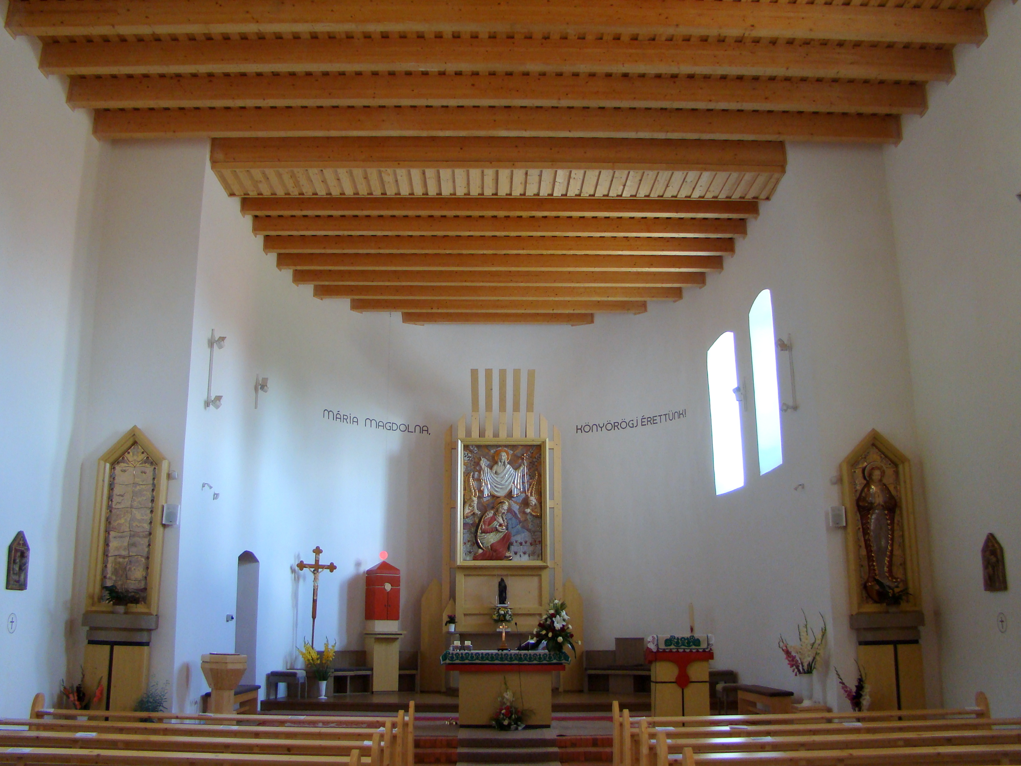 Roman Catholic church in Atia, Harghita County, Romania